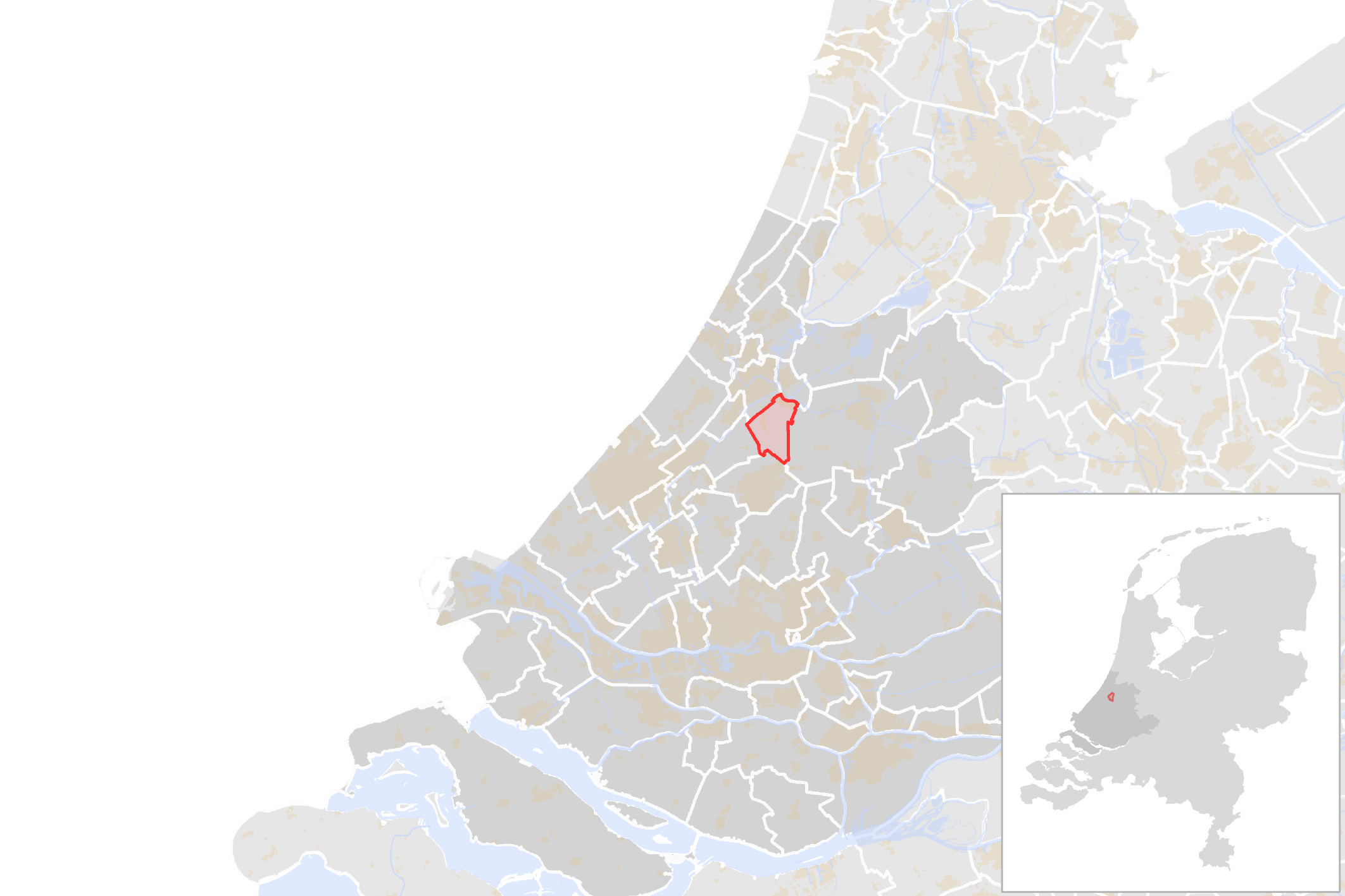 Locator map showing municipality boundary of one of the 390 Dutch municipalities (as of 2016)